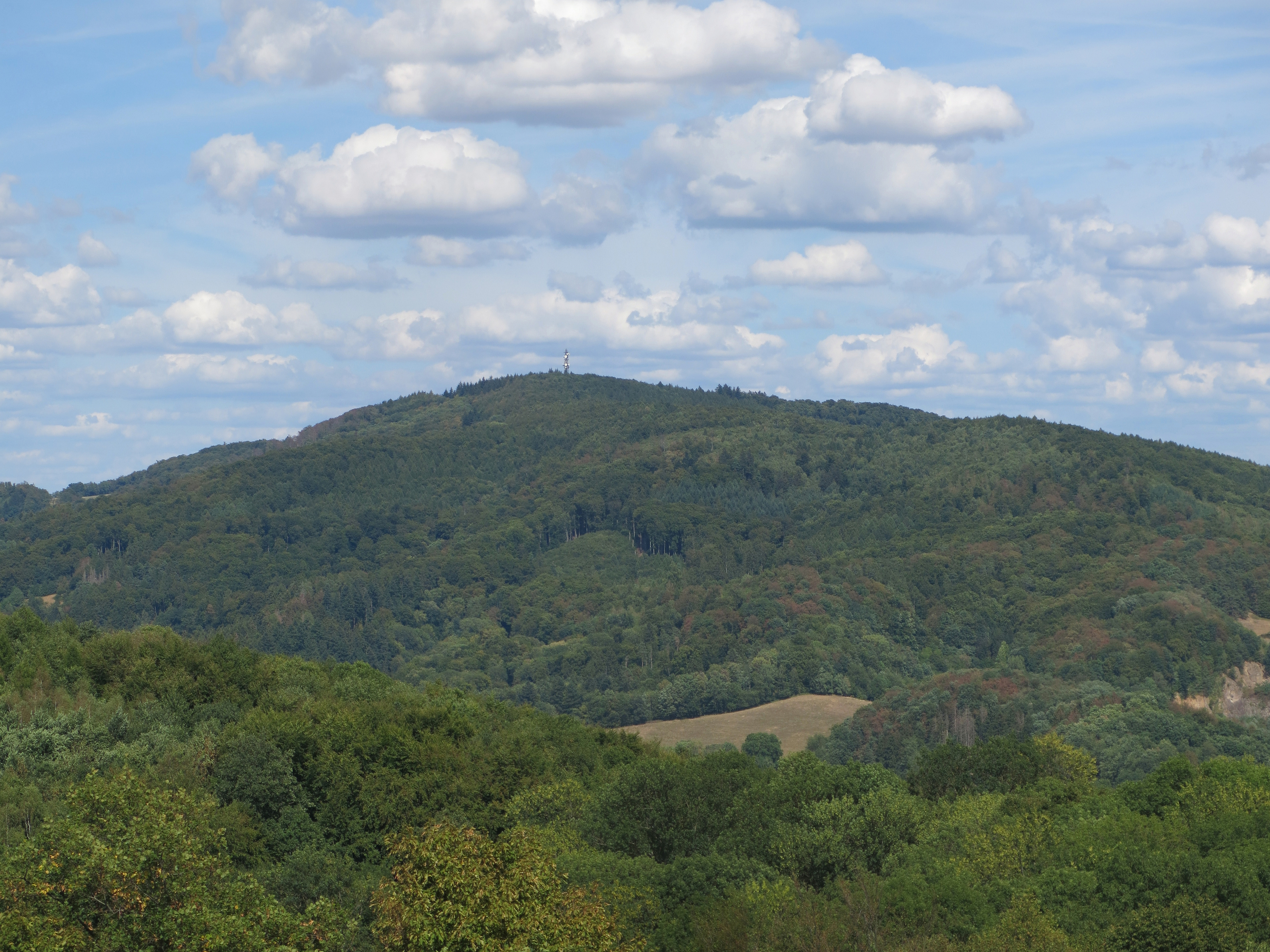 The Felsberg in the Odenwald from southwest, sen from Auerbach Castle.